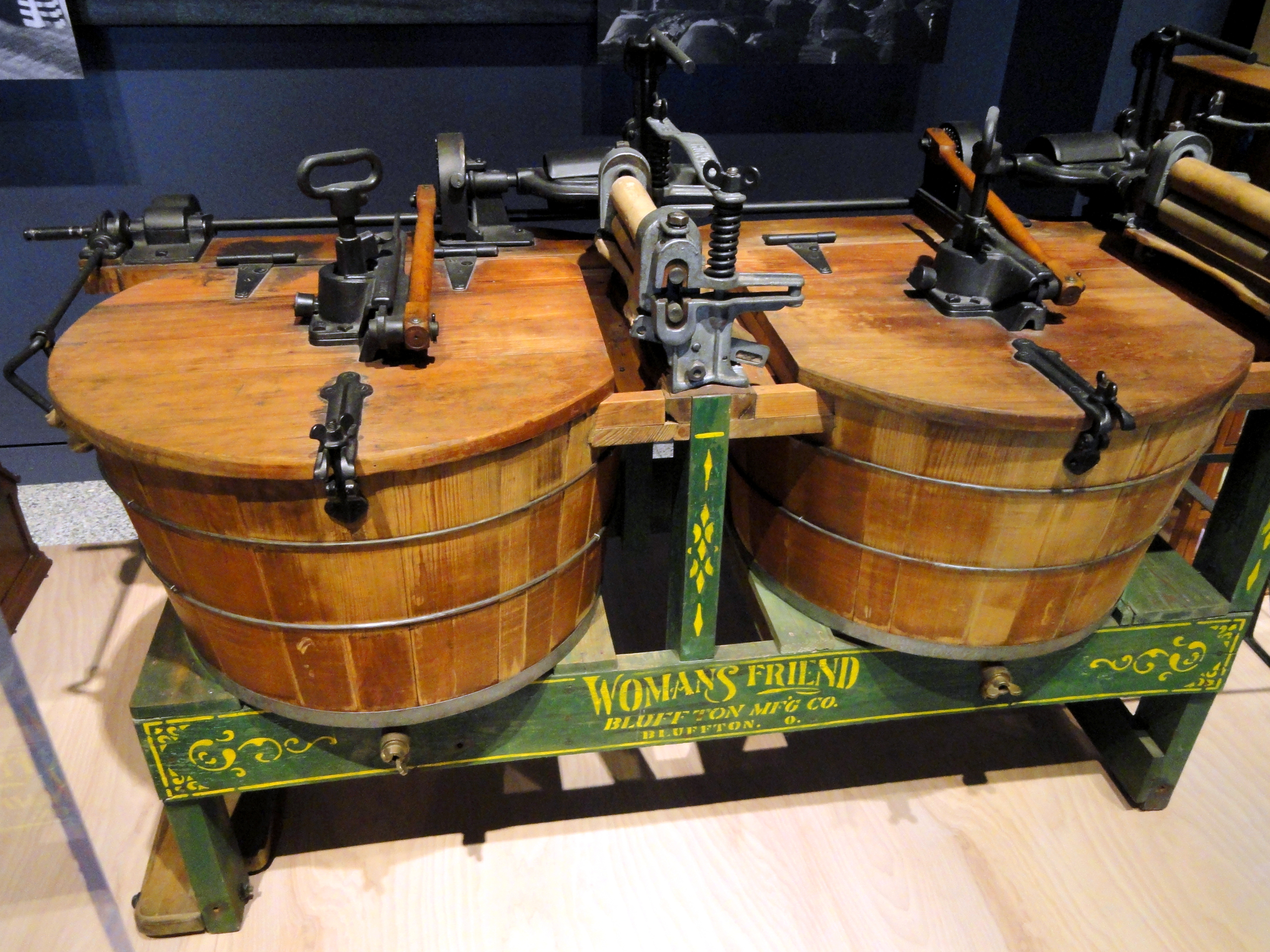 Woman's Friend washing machine, Rome City, Indiana, circa 1890. Indiana State Museum, 650 West Washington Street, Indianapolis, Indiana, USA.